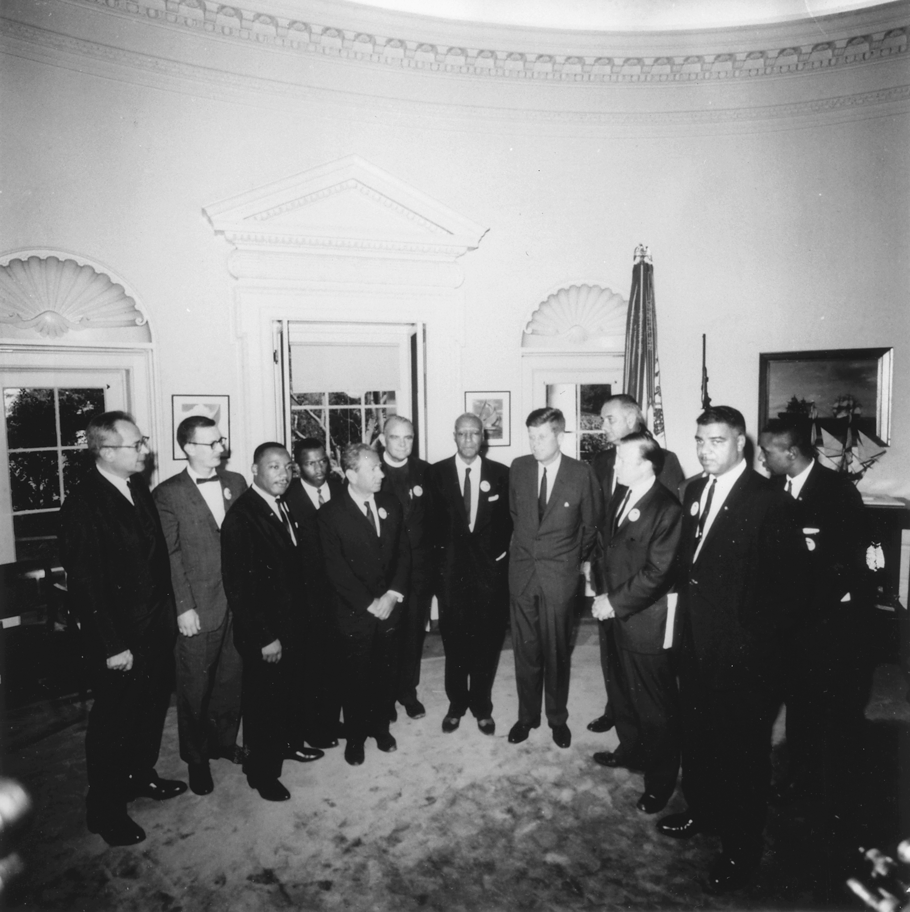 Scope and content: Photograph of the President's meeting with the leaders of the March on Washington. Left to Right — Willard Wirtz, Martin Luther King, Jr, Eugene Carson Blake, John F. Kennedy, Lyndon Baines Johnson, Walter P. Reuther. Others not in order A. Philip Randolph, John Lewis, Whitney Young, Mathew Ahmann, Joachin Prinz, Roy Wilkins, Floyd McKissick General notes: President John F. Kennedy in the Oval Office.